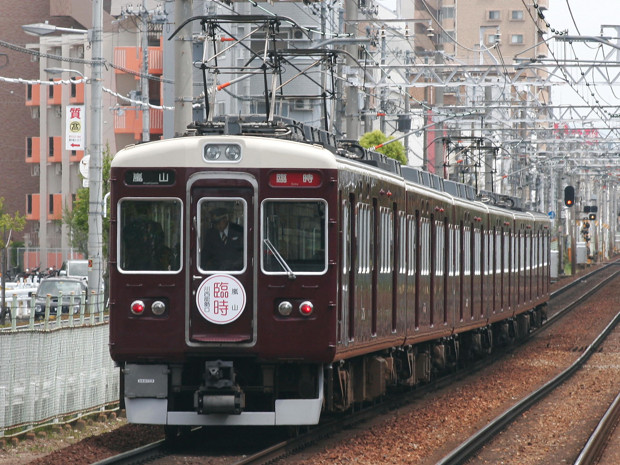 Hankyu 7000 Departure from special train Kawanishinoseguchi Arashiyama going via Sozenji Station